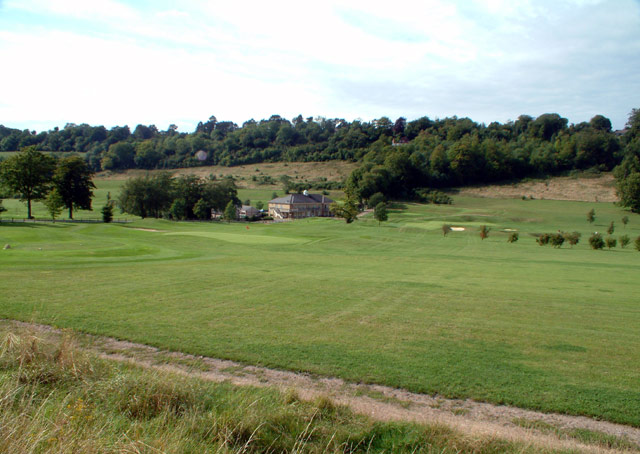 Woldingham Golf Club from Halliloo Valley Road CR3. Previously known as Duke's Dene. The clubhouse is on the site of the former Halliloo Farm. Haliloo Plantation occupies the ridge on the horizon.